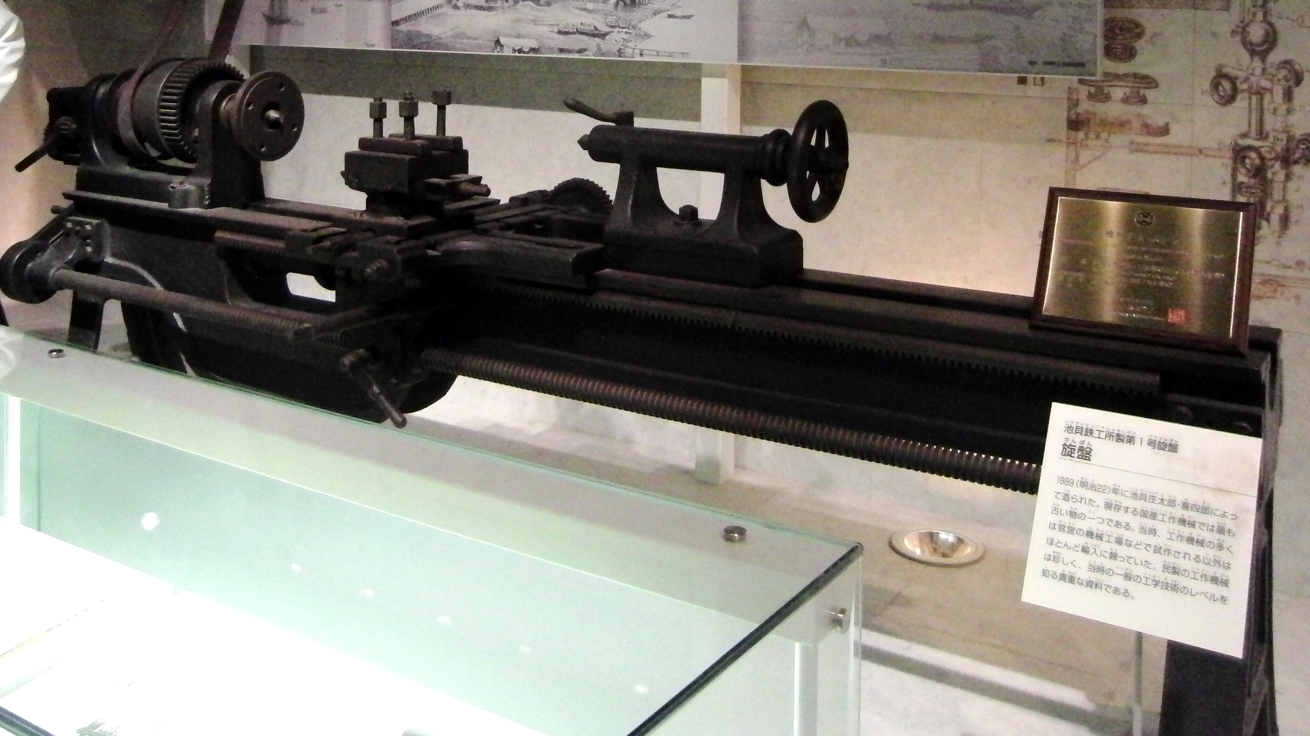 The first Japanese lathe by Syotaro IKEGAI. Mechanical Engineering Heritage (Japan) No.53. Exhibit in the National Museum of Nature and Science, Tokyo, Japan.